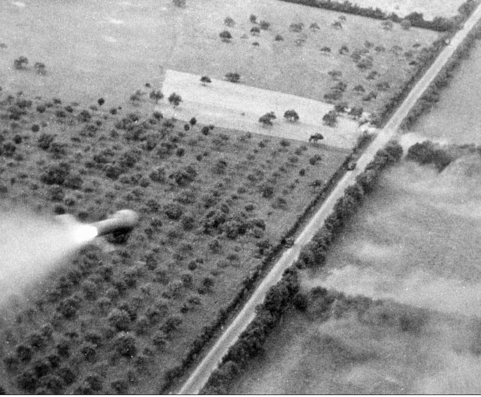 IWM caption : ROYAL AIR FORCE: 2ND TACTICAL AIR FORCE, 1943-1945. Still from film footage shot from a Hawker Typhoon of No. 181 Squadron RAF, showing a rocket projectile fired from the aircraft, heading towards German motor transport trying to escape through the Argentan-Falaise gap on a road near Livarot, Normandy.